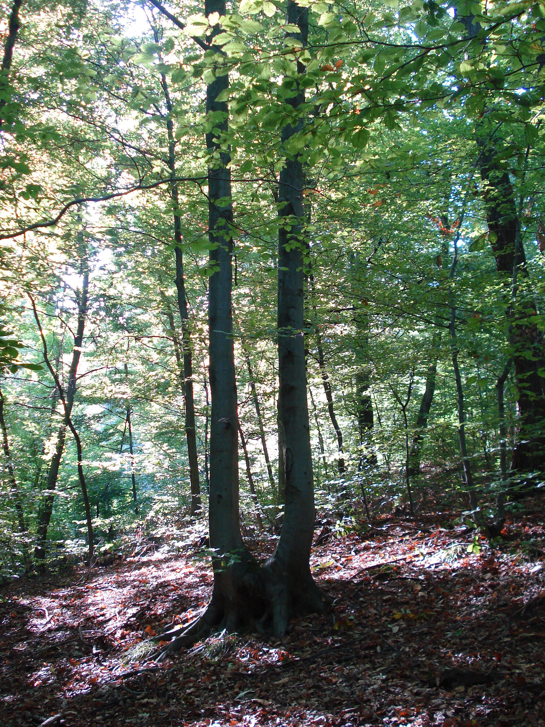 Forest, Park prirode Medvednica, Croatia